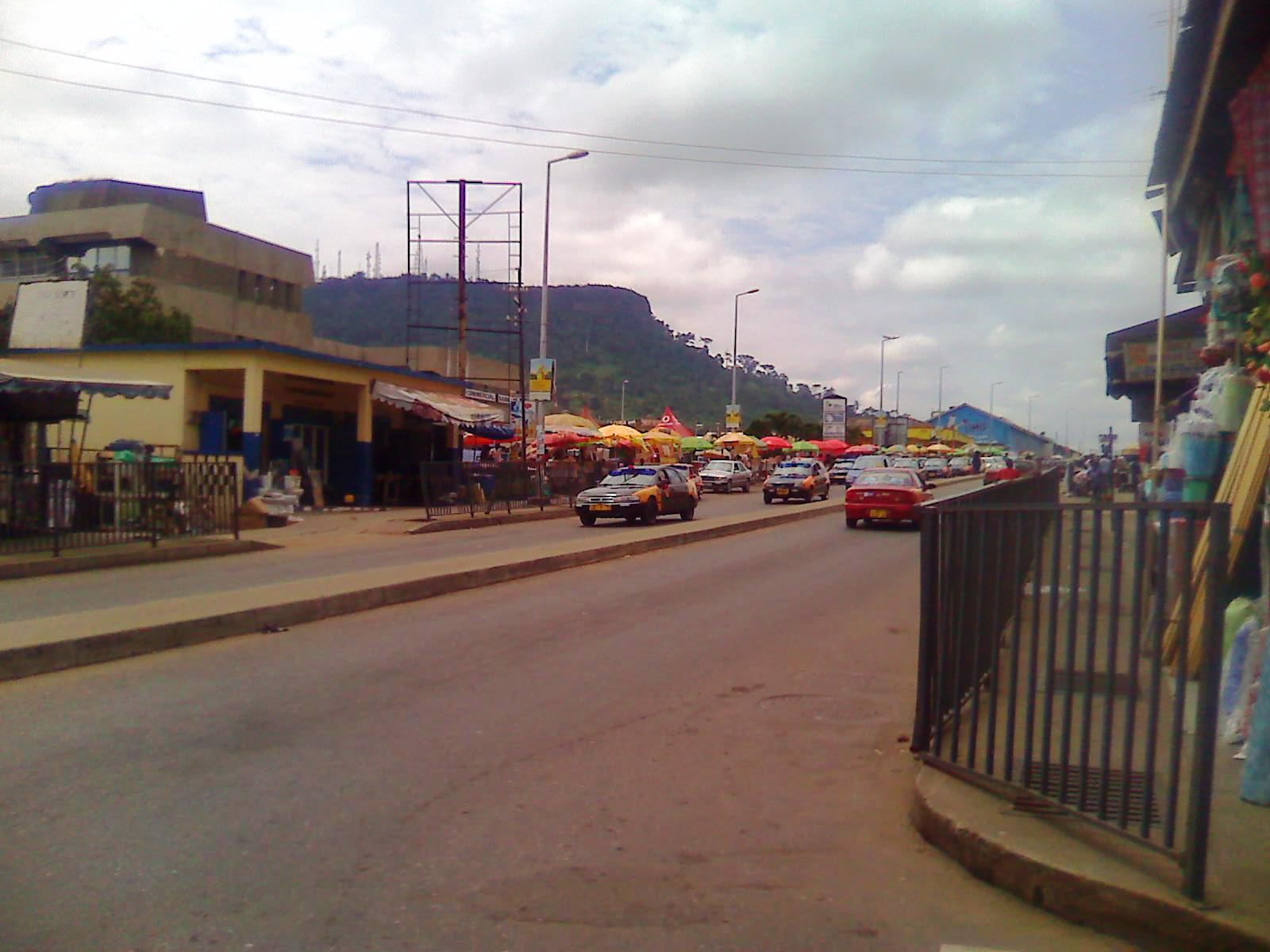 Commercial Bank area, Koforidua